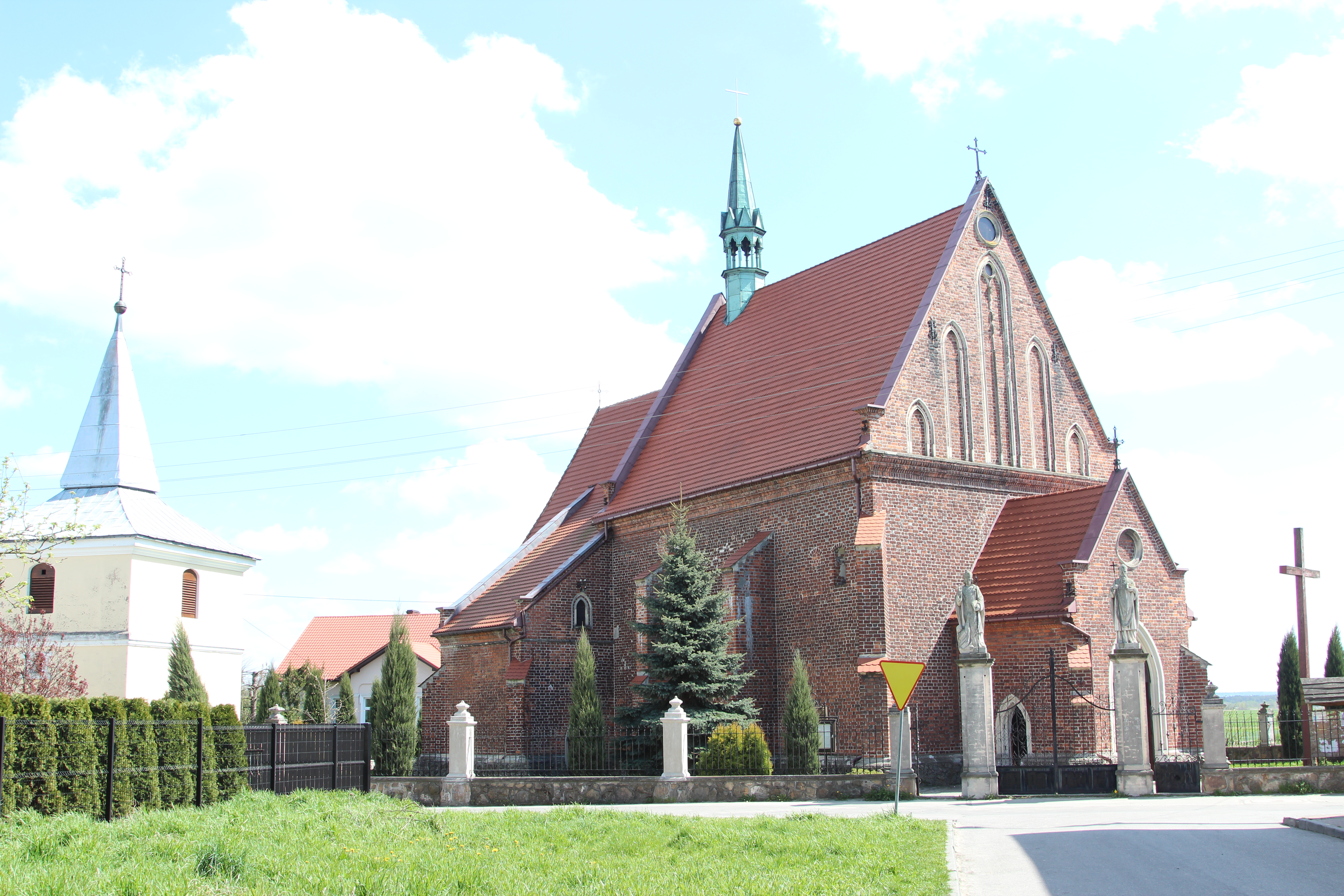 Church of the Nativity of the Virgin Mary in Żarnowiec